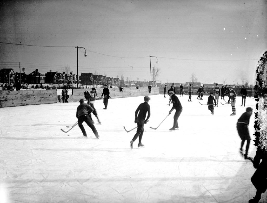 Hockey in Withrow Park in 1923. Carlaw Avenue, heading south, in background